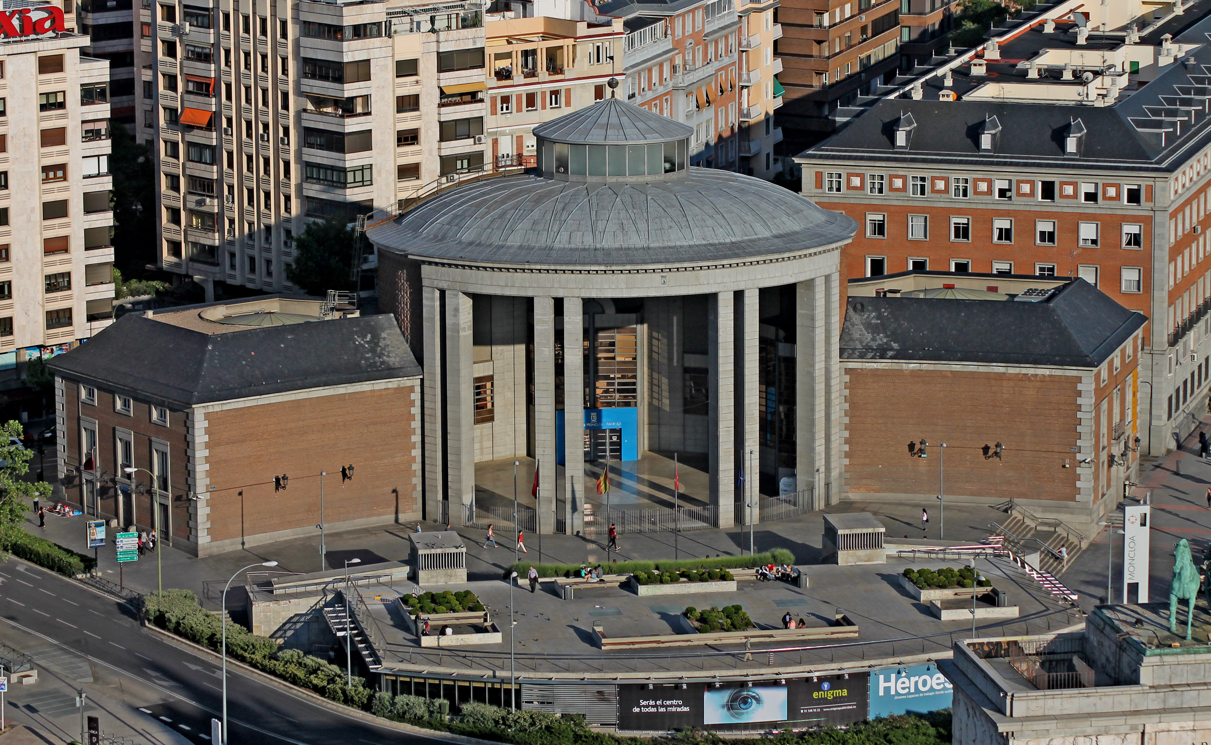 View of Moncloa-Aravaca District Hall in Madrid (Spain) from Faro de Moncloa.